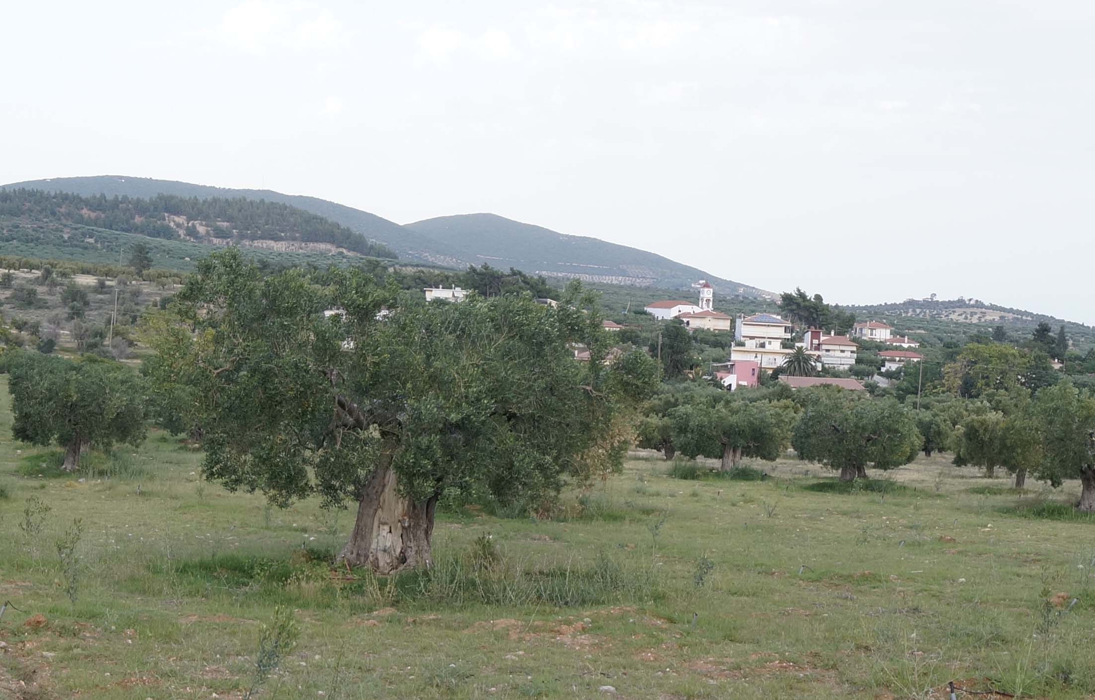 Olive trees in Yerakini with the village and the Trikorfo mountain in the background, Chalkidiki, Central Macedonia, Greece, Jun 2014